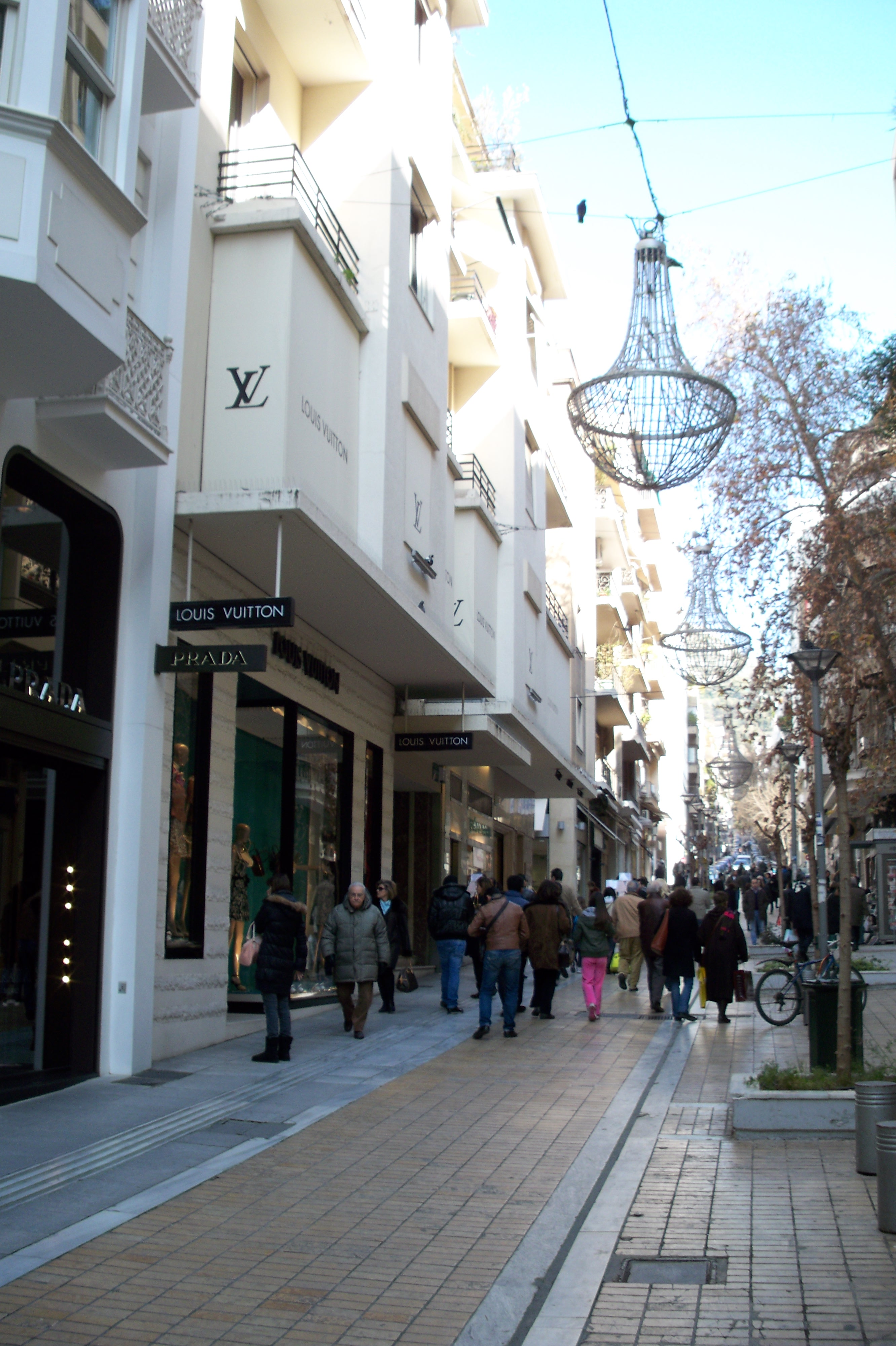 Voukourestiou Street in central Athens.